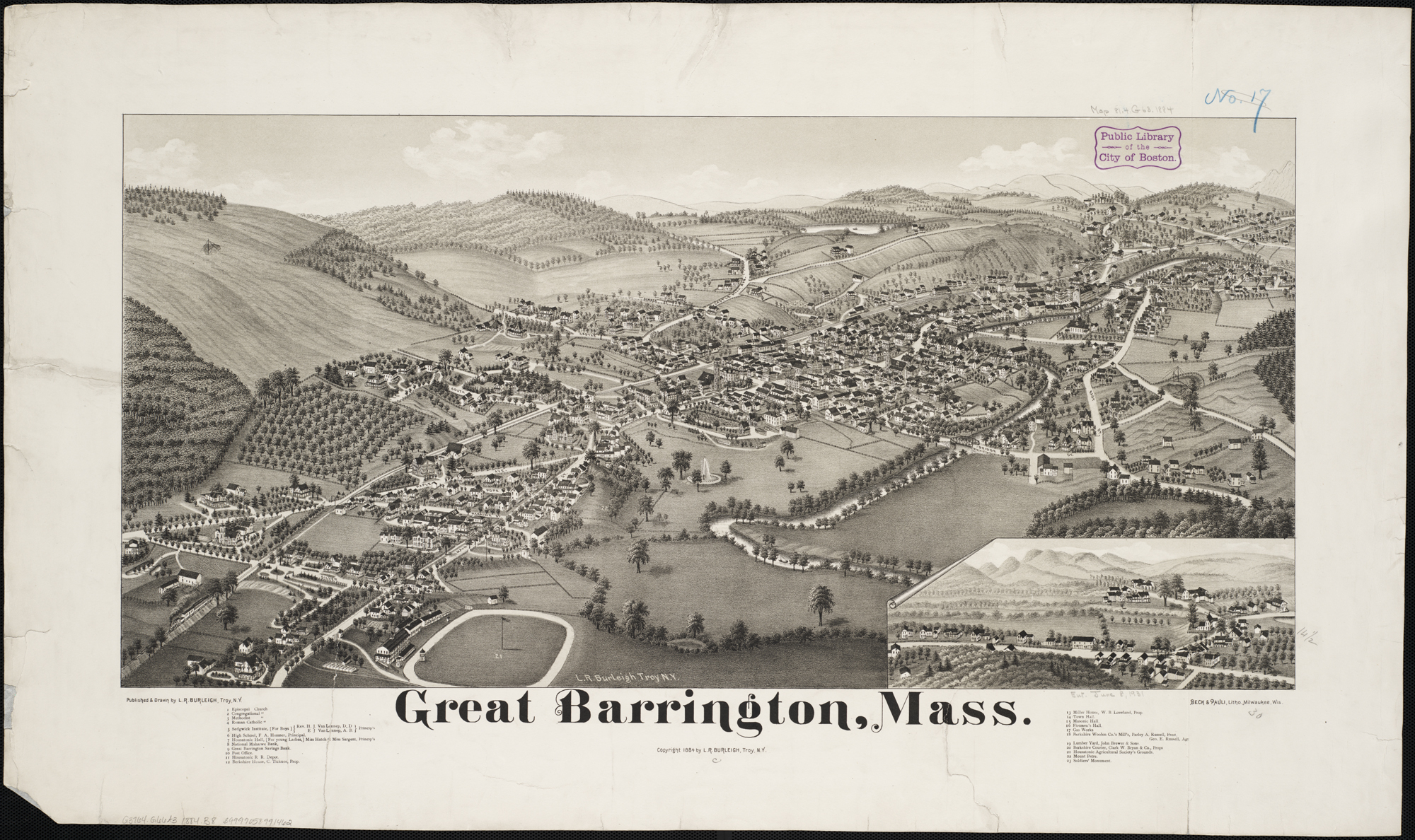 Zoom into this map at . Author: Burleigh, L. R. Publisher: L.R. Burleigh Date: c1884. Location: Great Barrington (Mass.) Scale: Not drawn to scale. Call Number: G3764.G66A3 1884.B8